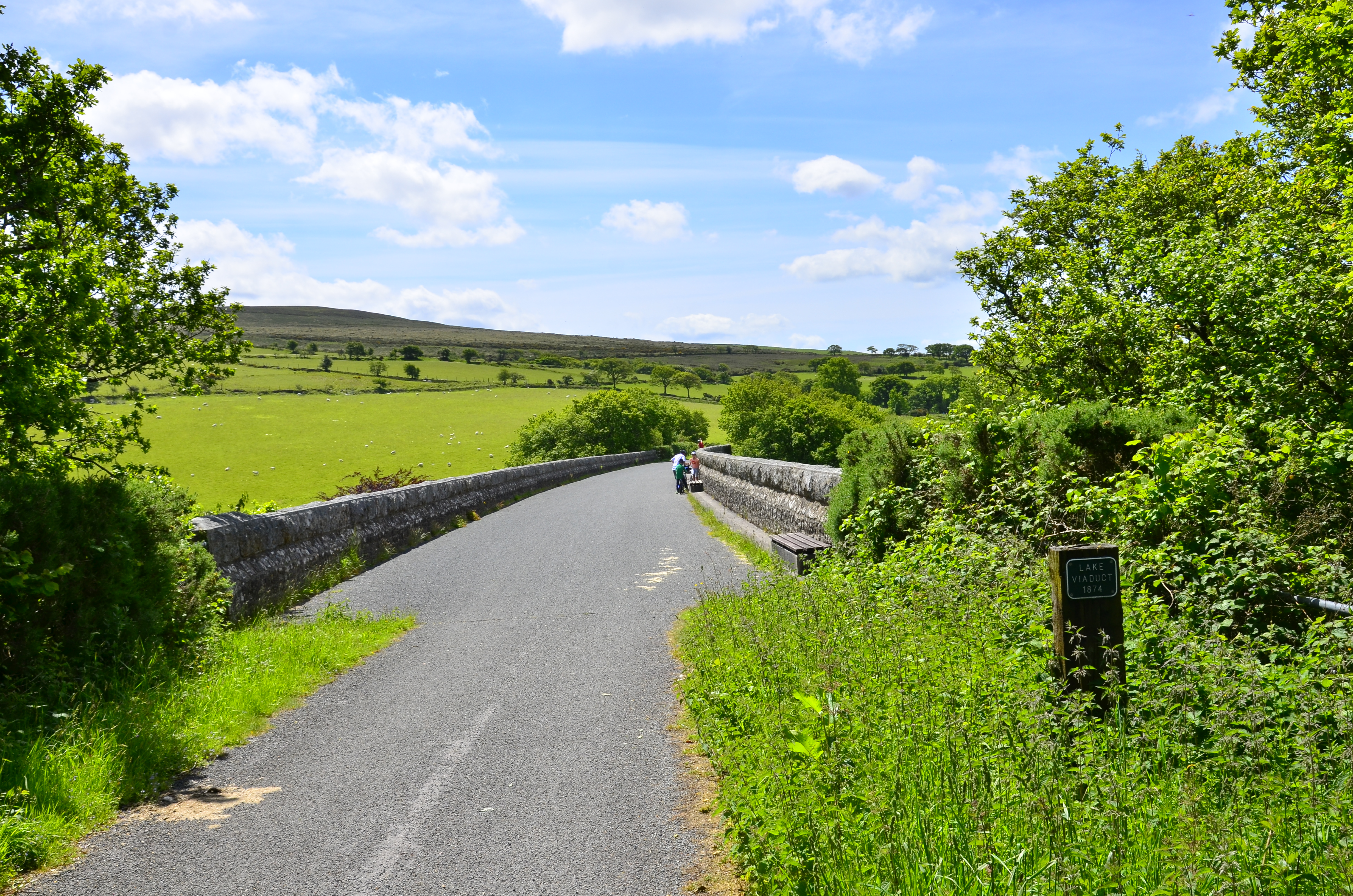 Surface of Lake Viaduct on the Granite Way in Devon, part of National Cycle Route 27.